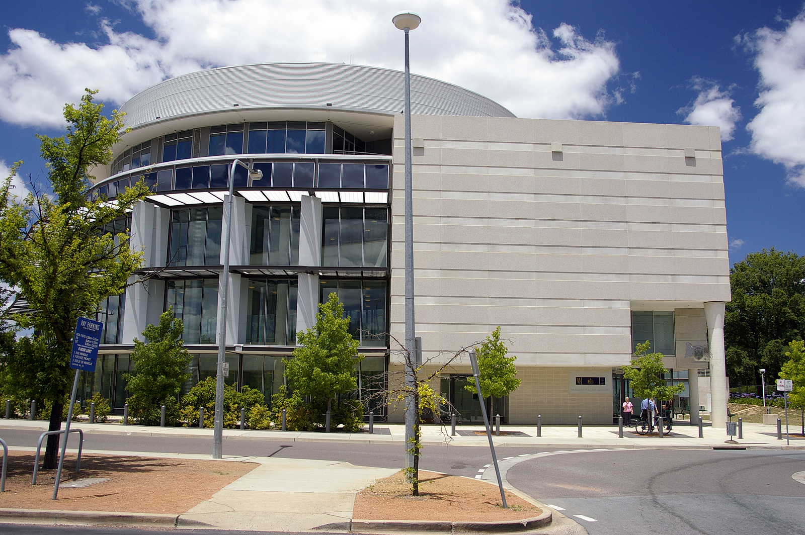 Magistrates Court of the Australian Capital Territory located on London Circuit in Canberra, Australian Capital Territory.